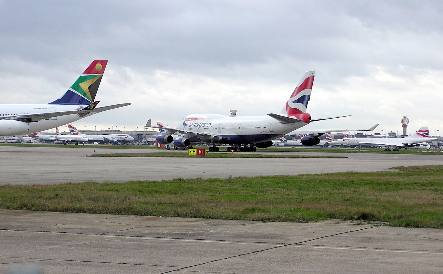 View across Heathrow Airport. The Concorde is G-BOAB in open-air storage. There at least nine British Airways tails in this photo (probably ten). The aircraft on the left is South African Airways Taken by Adrian Pingstone in January 2005 and released to the public domain.